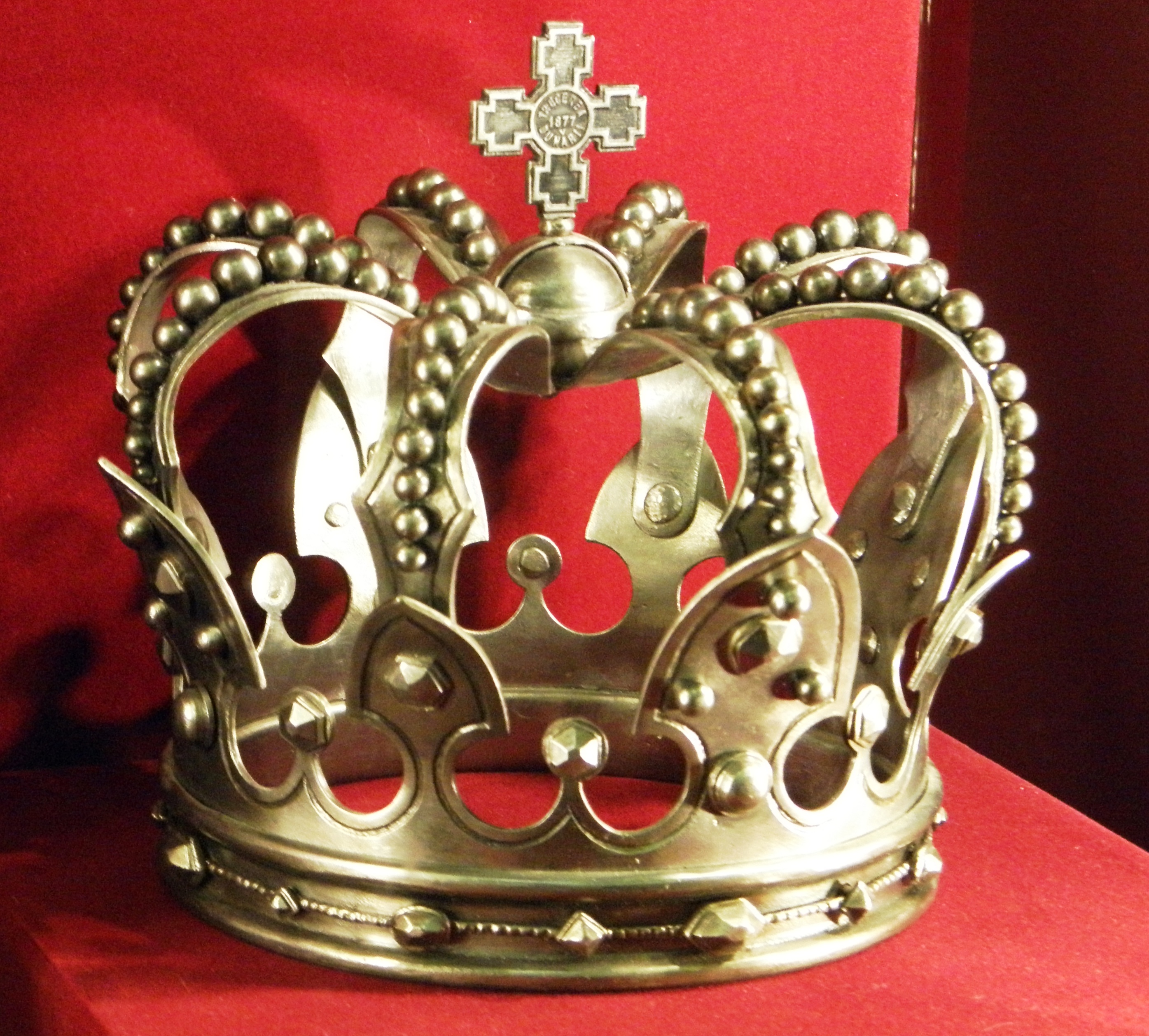 Iron crown of Romanian kingdom. (Copied)